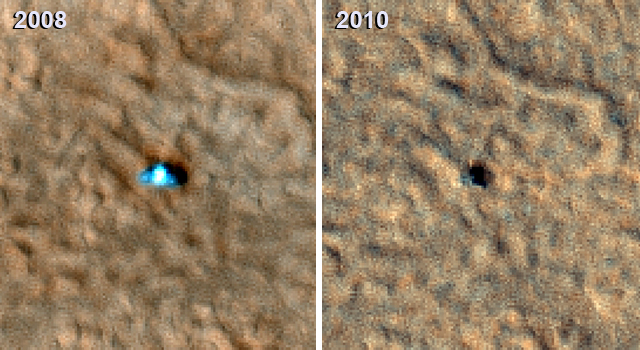 Two images of the Phoenix Mars lander taken from Martian orbit in 2008 and 2010. The 2008 lander image shows two relatively blue spots on either side corresponding to the spacecraft's clean circular solar panels. In the 2010 image scientists see a dark shadow that could be the lander body and eastern solar panel, but no shadow from the western solar panel.